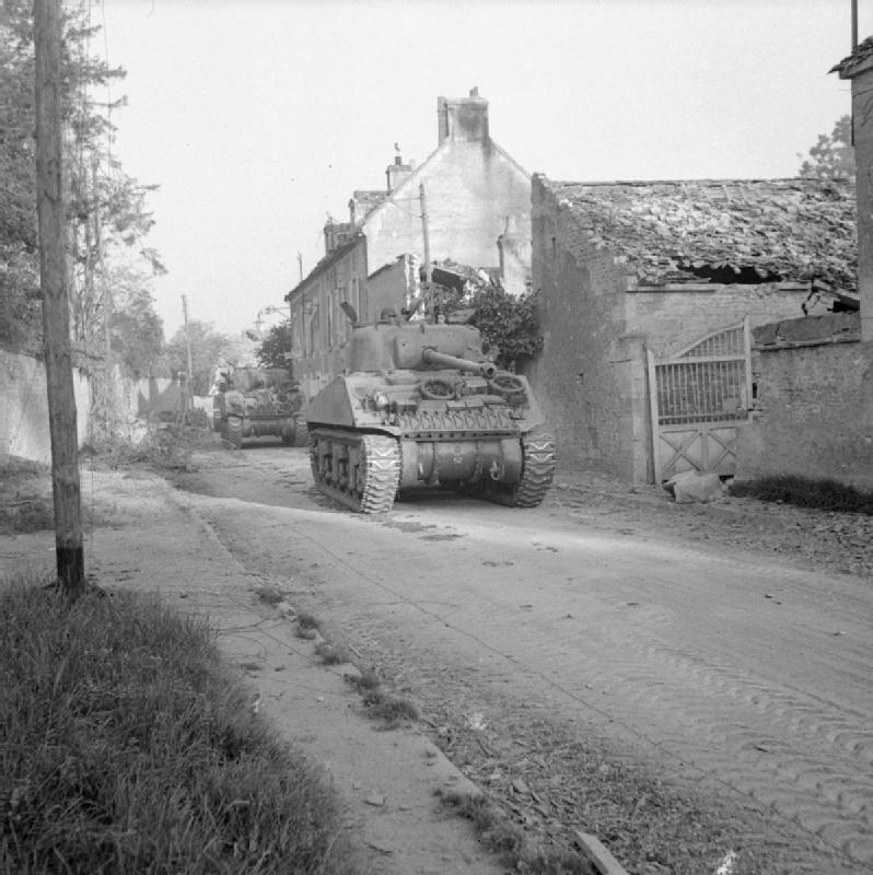 The British Army in the Normandy Campaign 1944 Sherman tanks and a Sherman Firefly move through Escoville during Operation 'Goodwood', 18 July 1944.